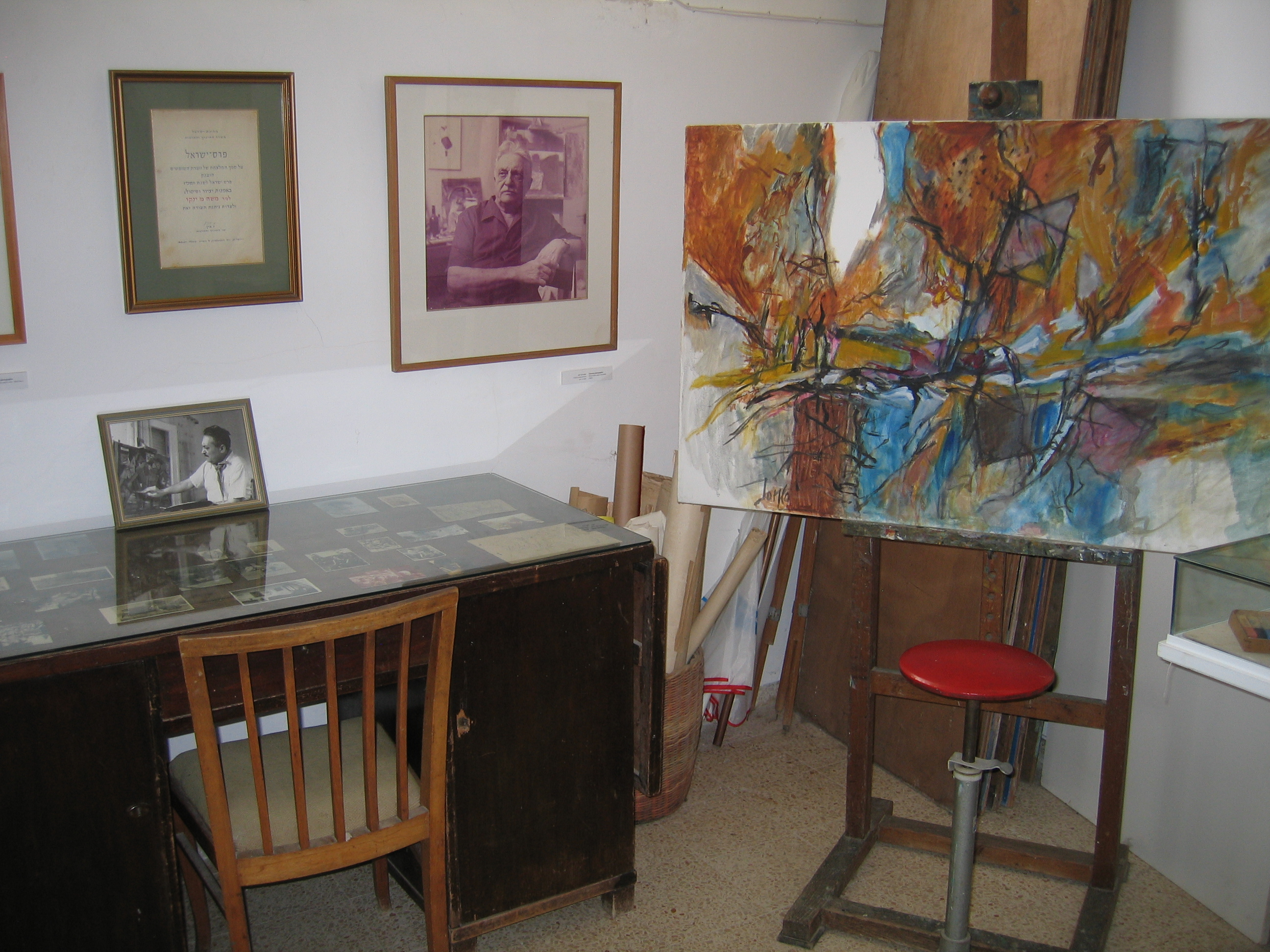 Marcel Janco studio at Ein Hod artist village, Israel pic by talmoryair, 2006